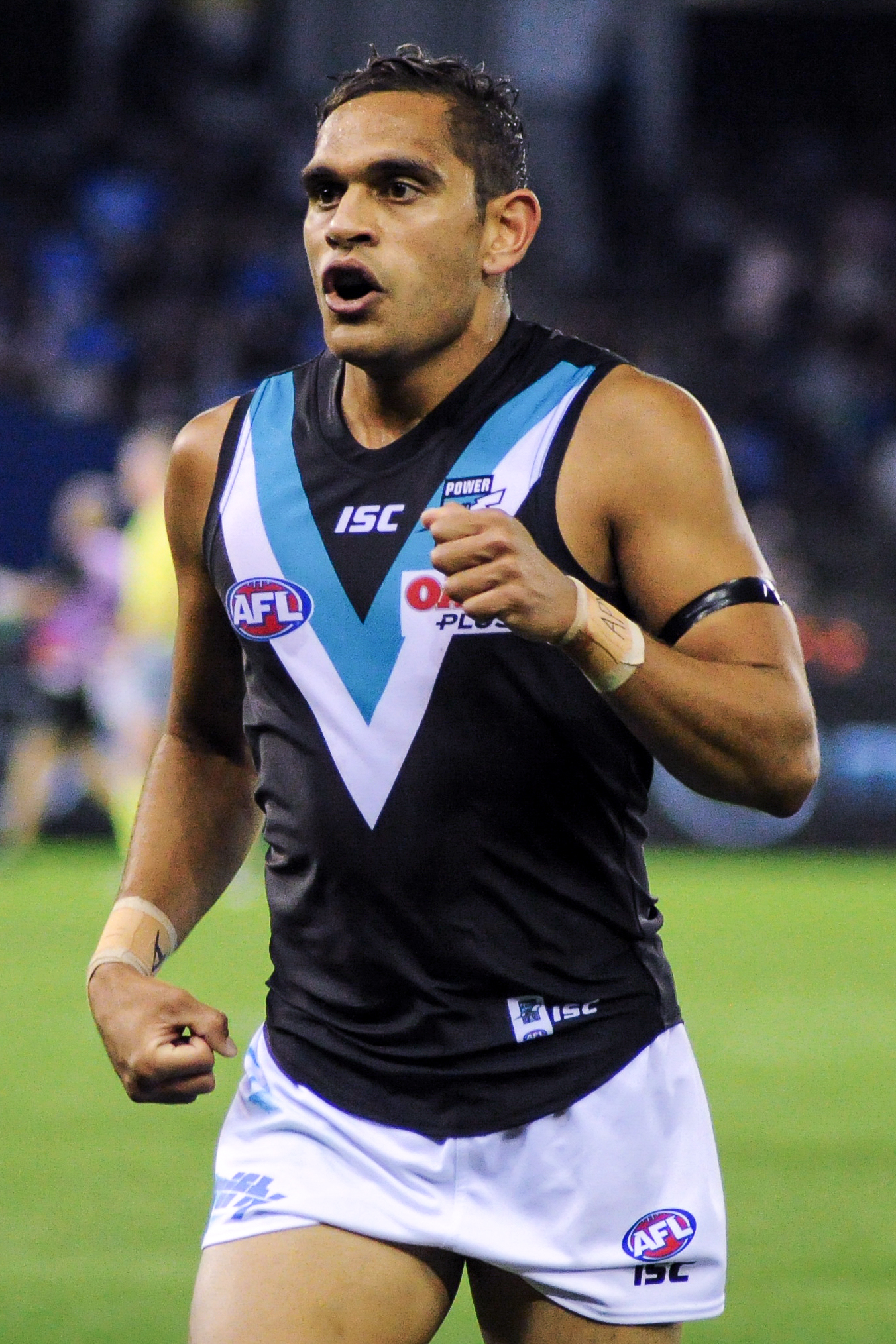 Dom Barry during the AFL round six match between North Melbourne and Port Adelaide on Saturday, 28 April 2018 at Etihad Stadium in Melbourne, Victoria.